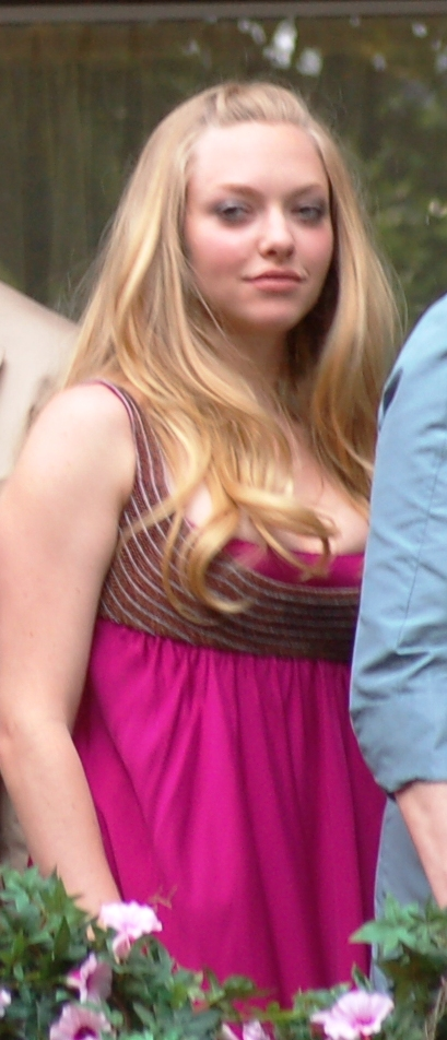 Amanda Seyfried in Sweden at the Mamma Mia! The Movie premier